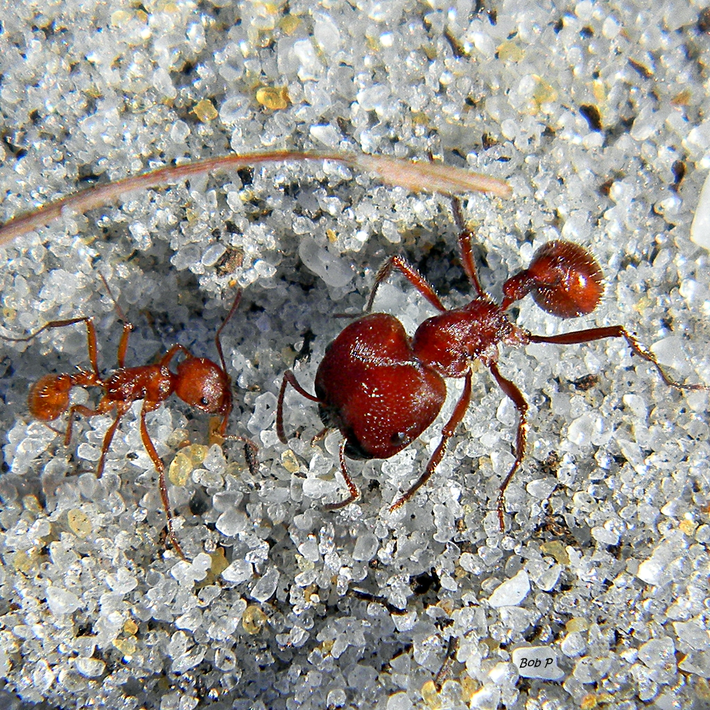 Florida harvester ant minor and major worker. Polymorphic sisters posing on the crystalline quartz sand grains of an ancient dune! Unrelated little video of workers dancing after a hard day's seed gathering: (Dear myrmecologists, I know they are not really dancing ;-)